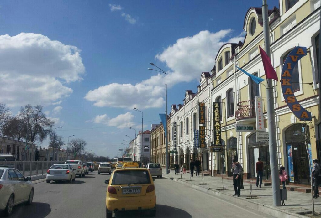 Mirzo Ulugbek street in Samarkand (Uzbekistan)